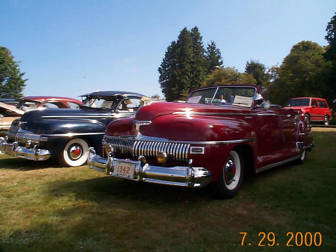 1942 De Soto Fifth Avenue convertible, taken at a National De Soto Club event in Everett Washington.